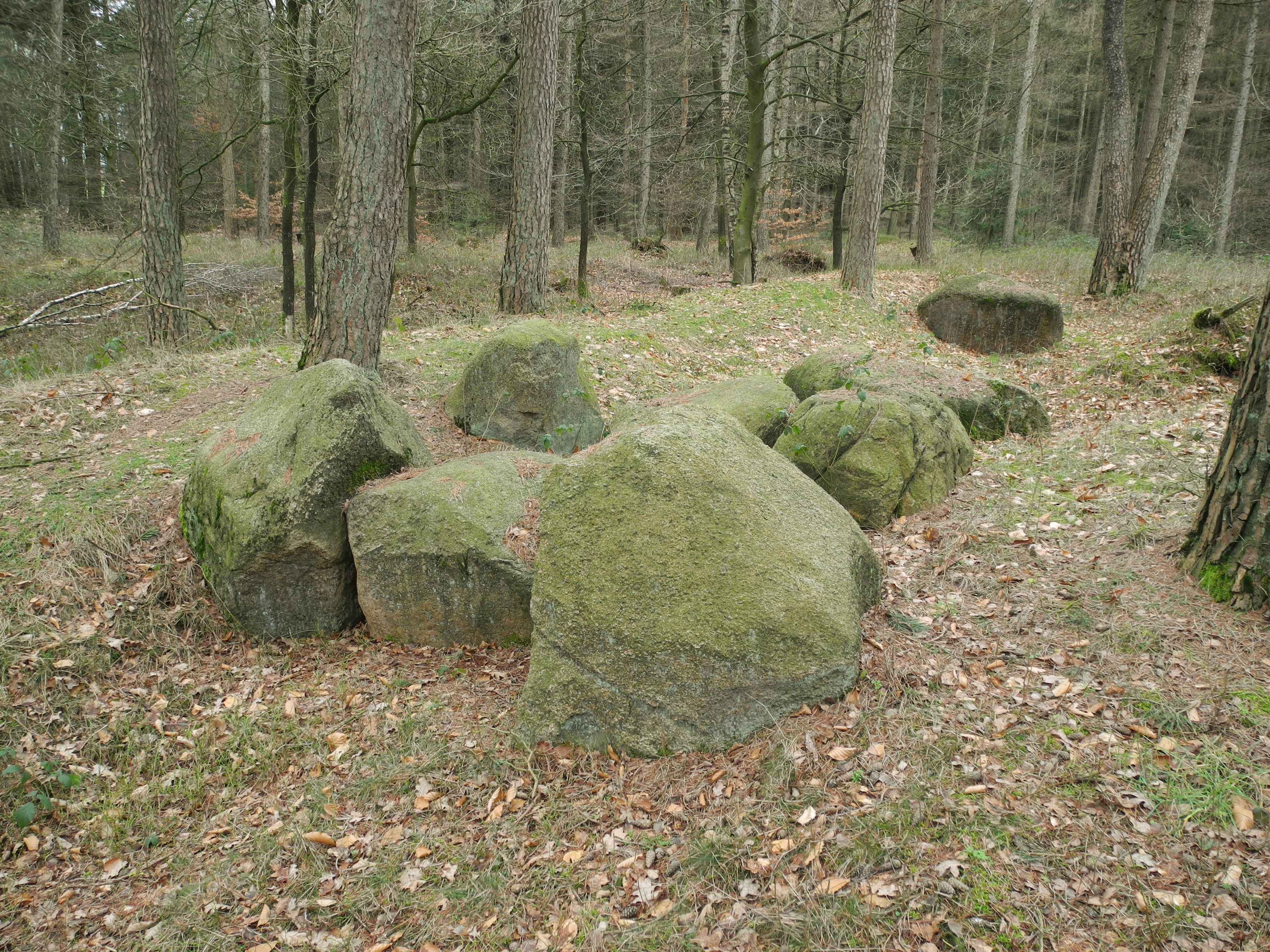 Megalithic tomb "Meyer" (district Osnabrück in Lower Saxony, Germany).